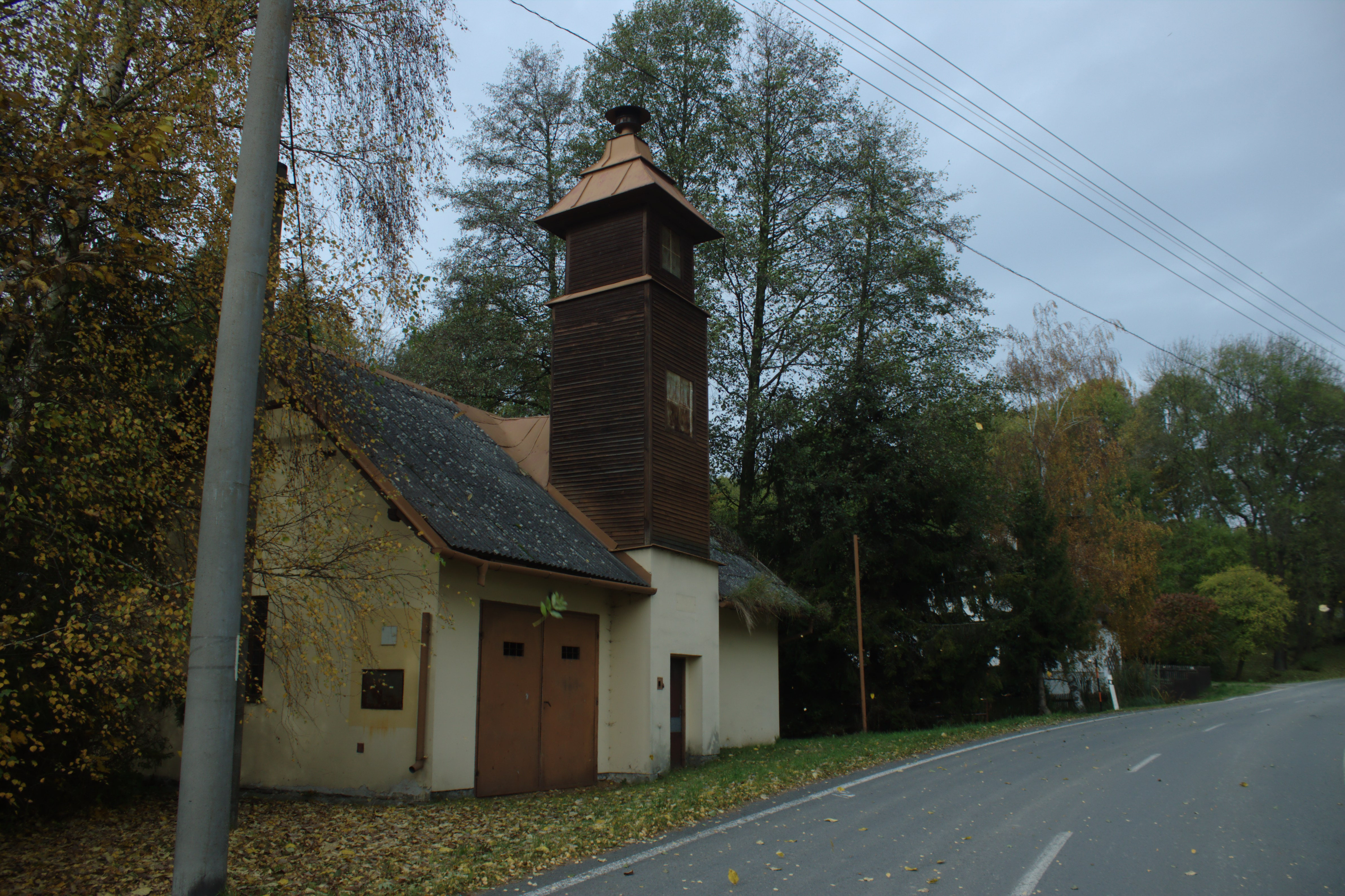 A fire station in Hořejší Kunčice, Moravian-Silesian Region, CZ